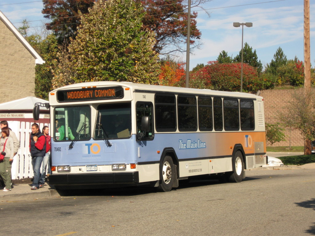 Coach USA ShortLine #70492, owned by Orange County, NY, drops off customers on the Main Line route.